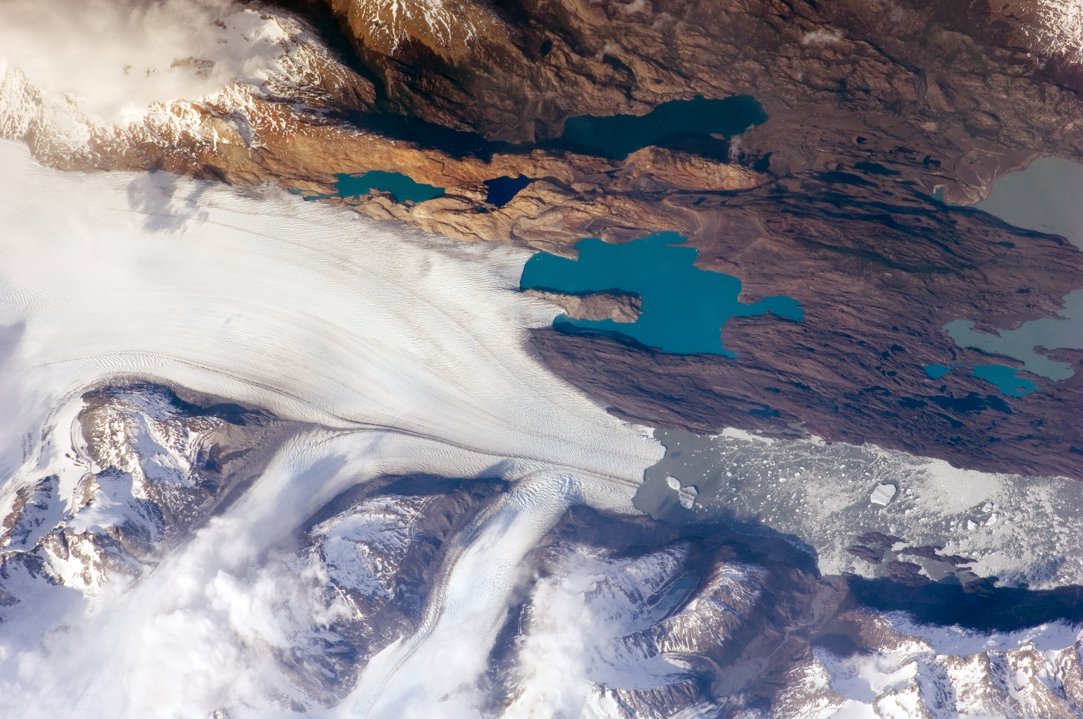 The Southern Patagonian Icefield of Argentina and Chile is the southern remnant of the Patagonia Ice Sheet that covered the southern Andes Mountains during the last ice age. This detailed astronaut photograph illustrates the terminus of one of the ice-field’s many spectacular glaciers—Upsala Glacier, located on the eastern side of the ice-field. This image was taken during spring in the Southern Hemisphere, and icebergs were calving from the glacier terminus into the waters of Lago Argentino (Lake Argentina, image right). Two icebergs are especially interesting because they retain fragments of the moraine (rock debris) that forms a dark line along the upper surface of the glacier. The inclusion of the moraine illustrates how land-based rocks and sediment may wind up in ocean sediments far from shore. Moraines are formed from rock and soil debris that accumulate along the front and sides of a flowing glacier. The glacier is like a bulldozer that pushes soil and rock in front of it, leaving debris on either side. When two glaciers merge (image centre), moraines along their edges can join to form a medial moraine that is drawn out along the upper surface of the new glacier.